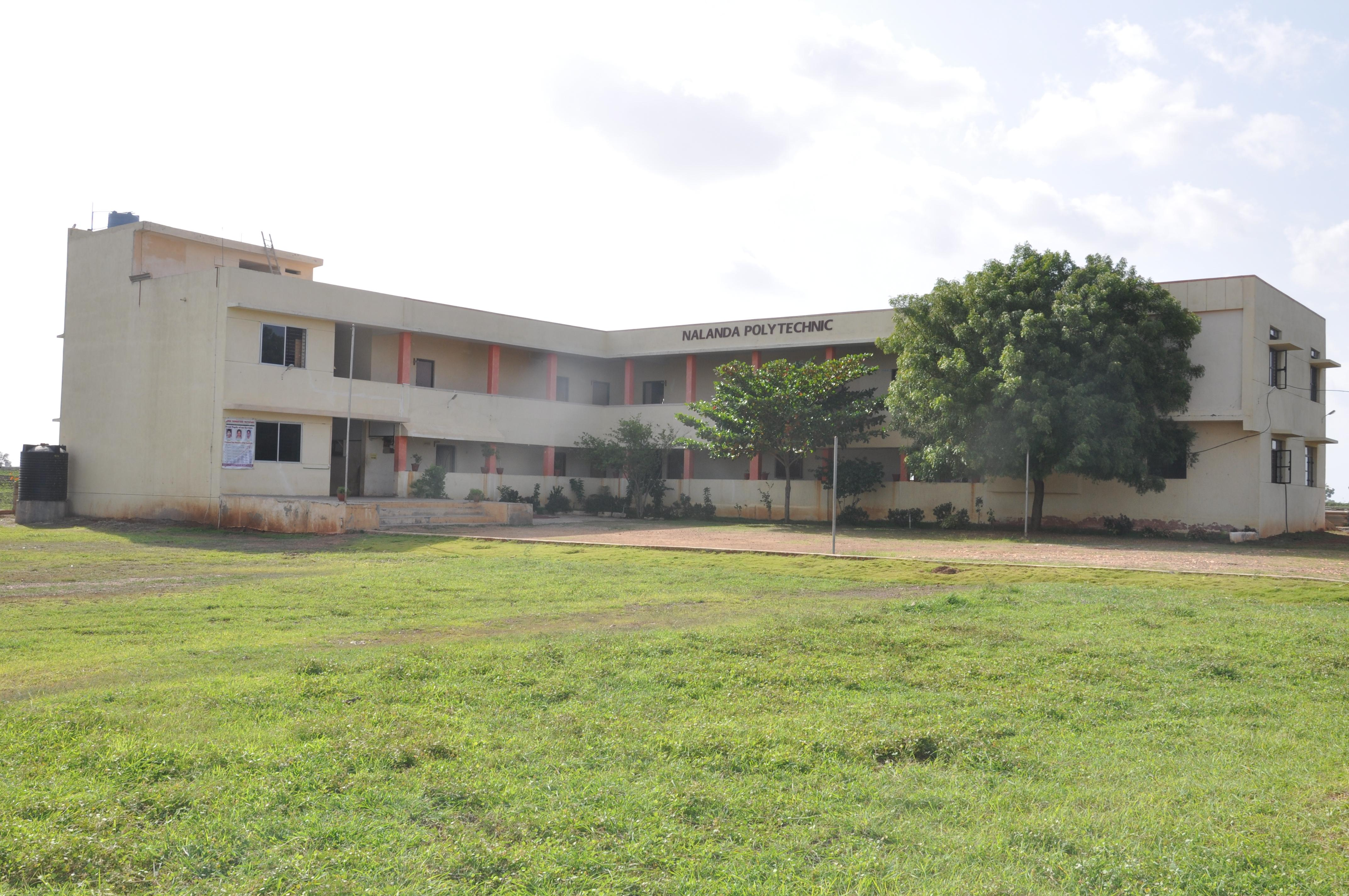 Photo of Nalanda Polytechnic